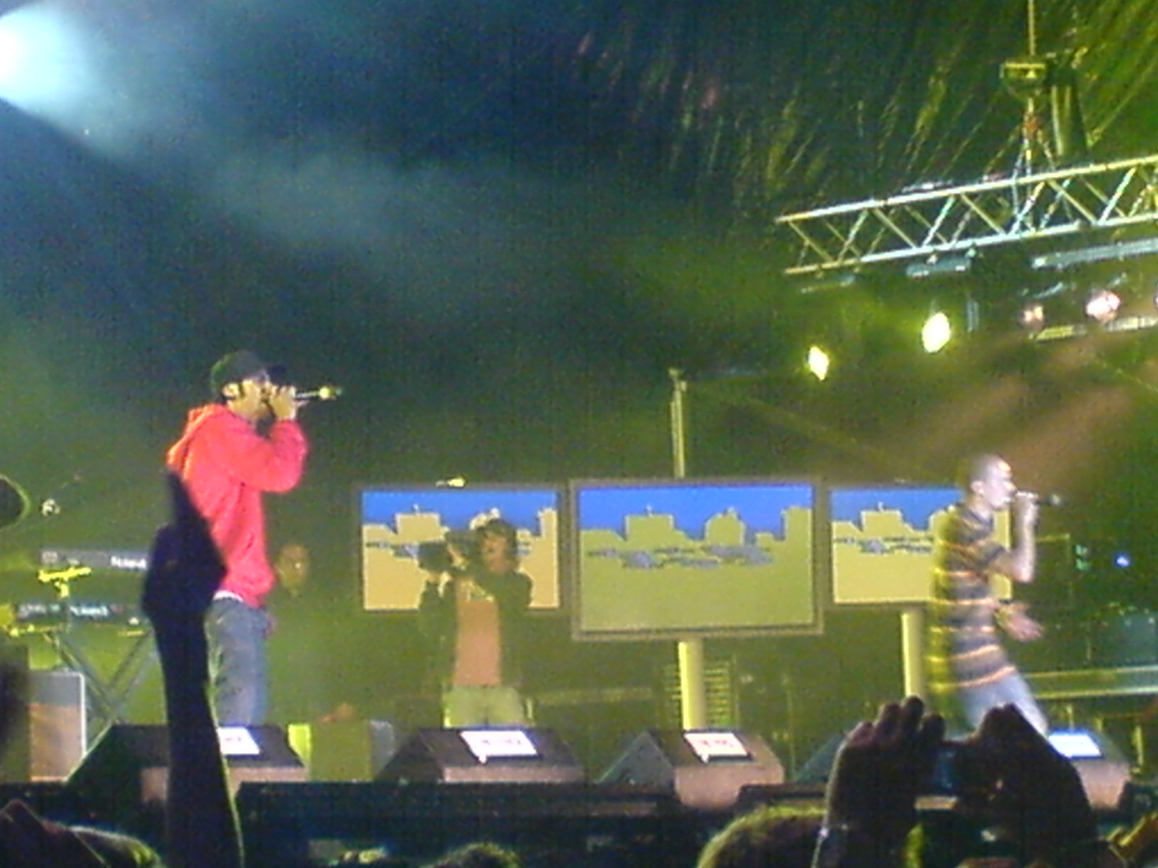 Karpe Diem at The Voice '06